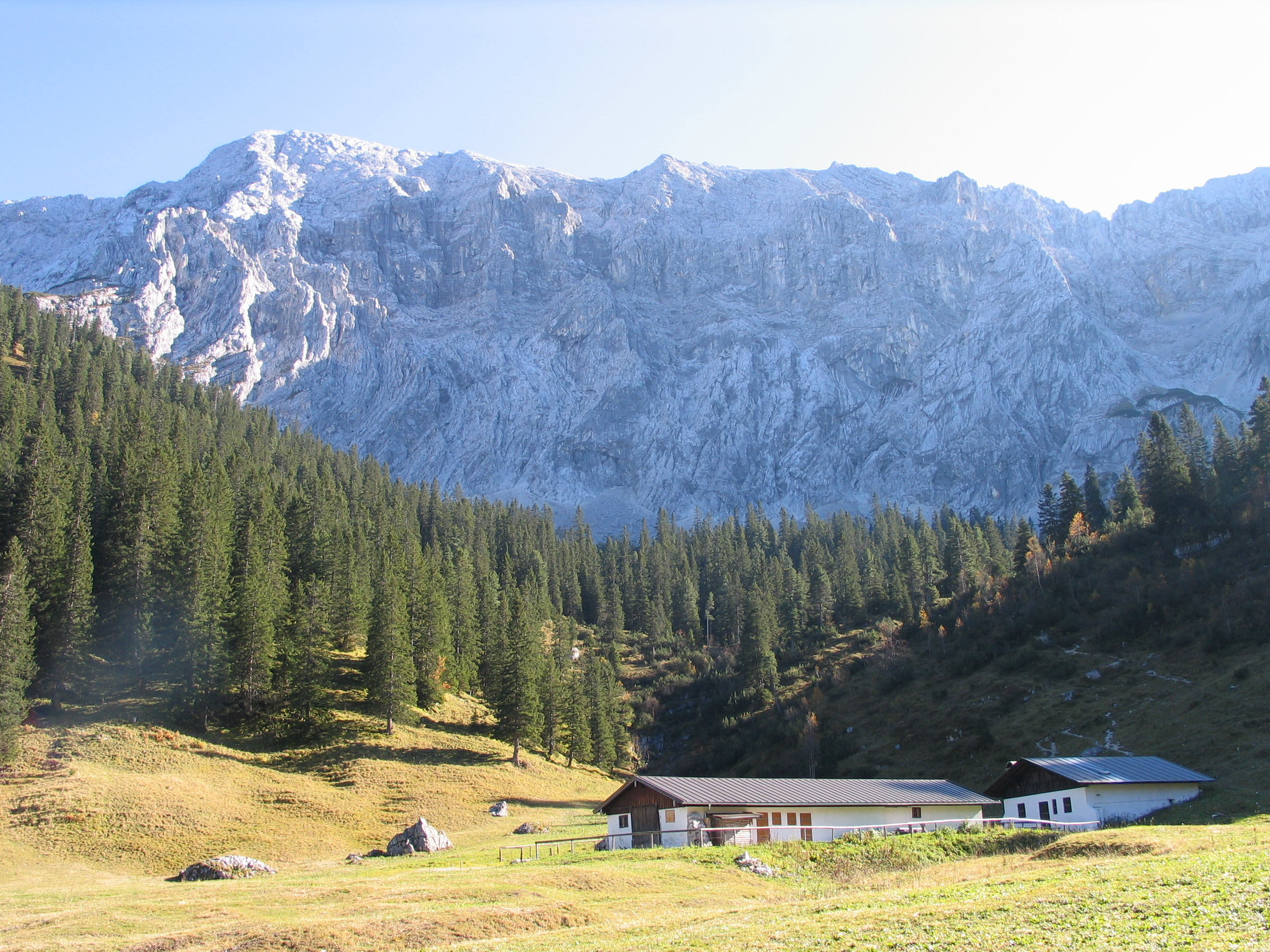 Wettersteinalm